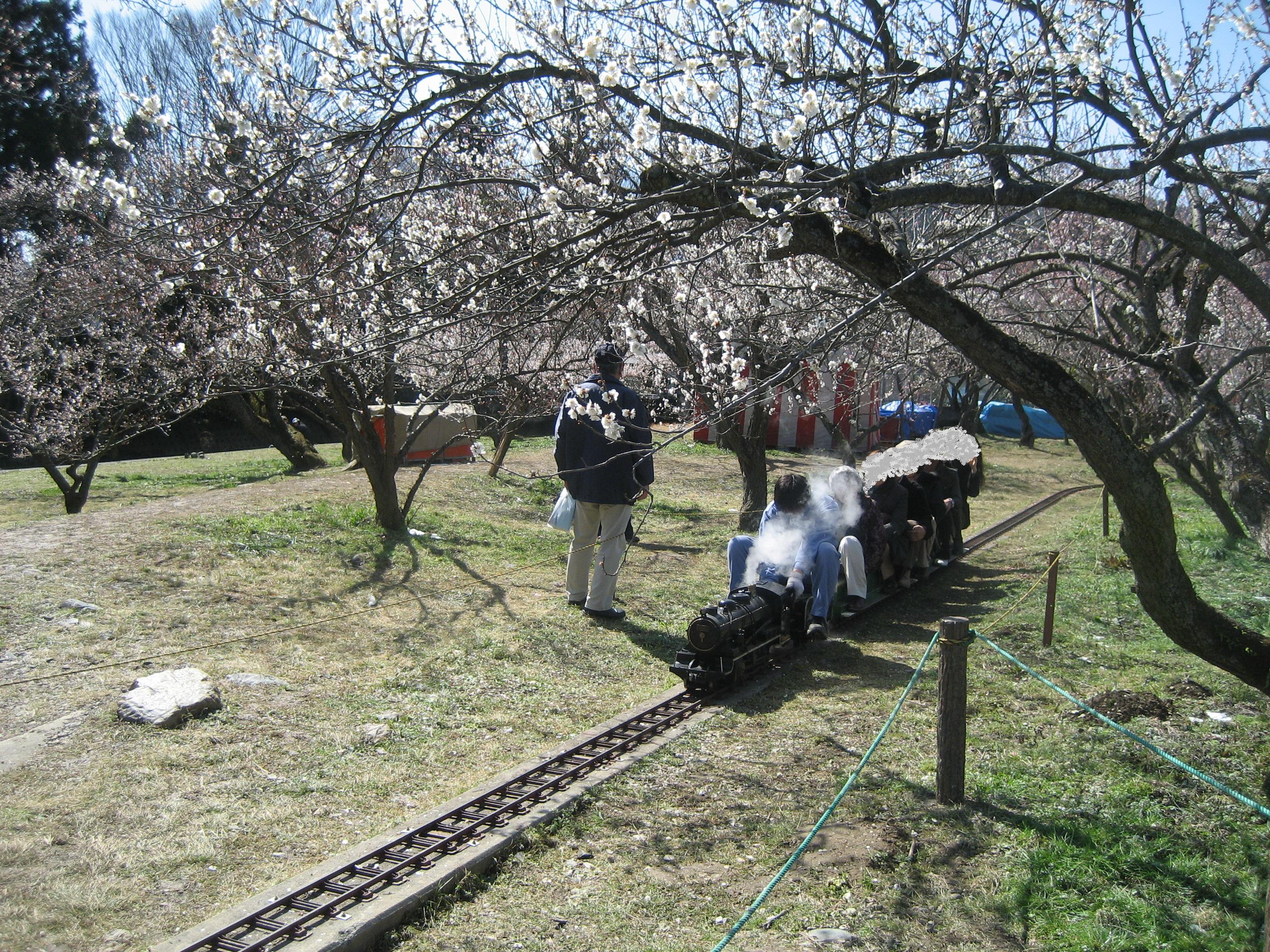 Model steam locomotive in the Ogose Plum Grove